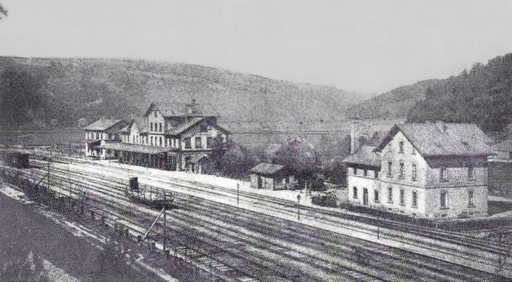 Station of in the North of Pirmasens in 1900 (at that time: Biebermühle).